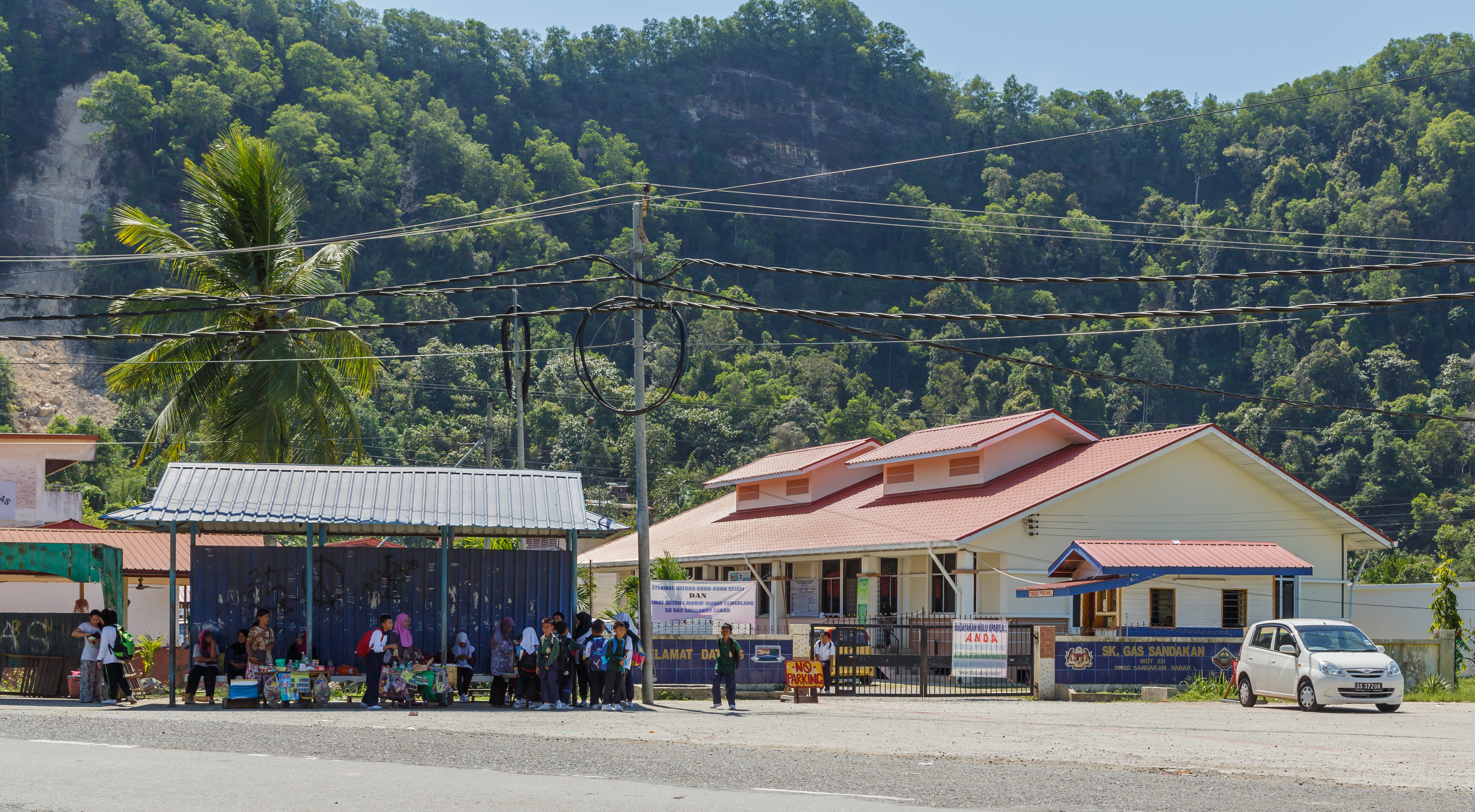 Sandakan, Sabah: Sekolah Kebangsaan Gas Sandakan, a primary school